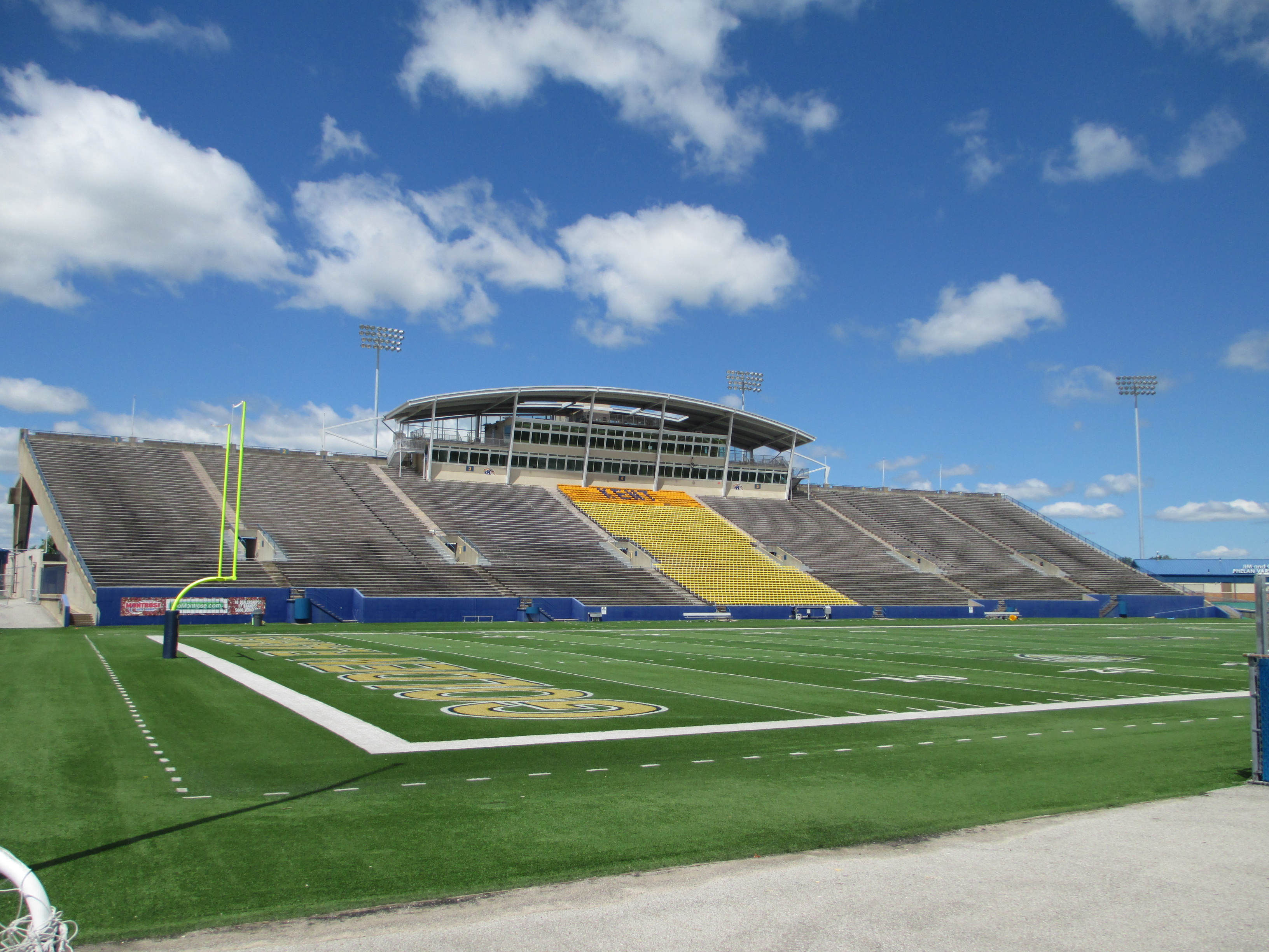 View of the west stands at Dix Stadium in Kent, Ohio, United States, on the campus of Kent State University.